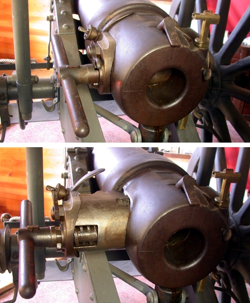 Breech Krupp 1879